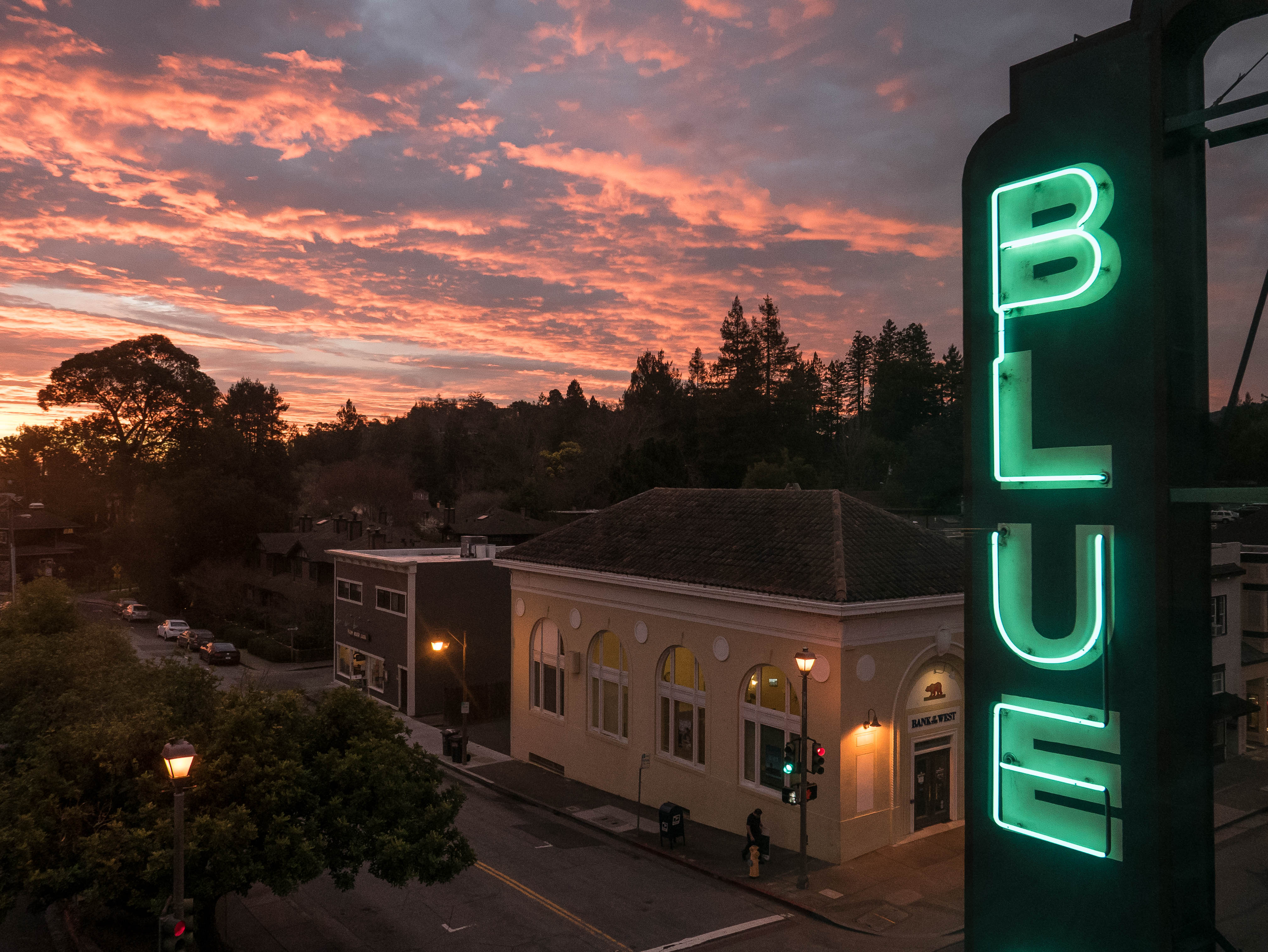 Blue Rock Inn sign at sunrise in downtown Larkspur, California.